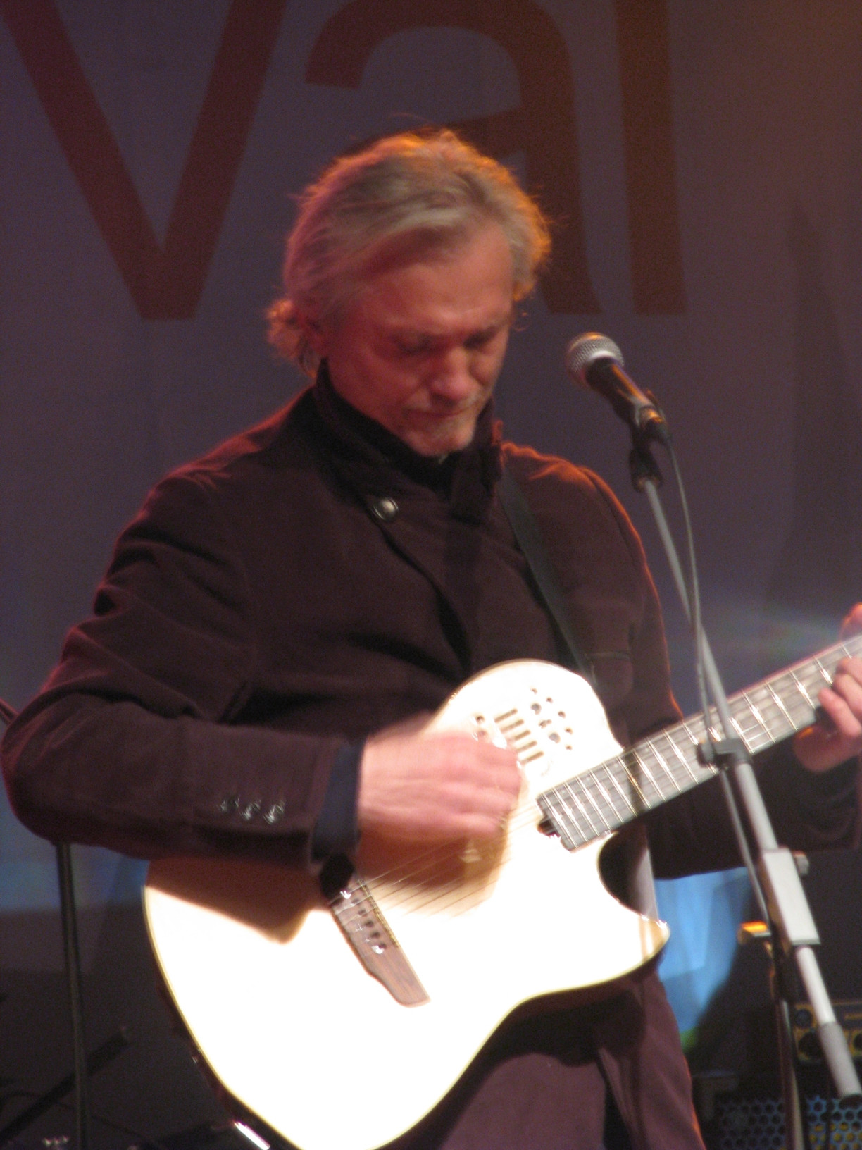 Darko Rundek concert at Trenchtown Festival in Palić, Subotica, Serbia.